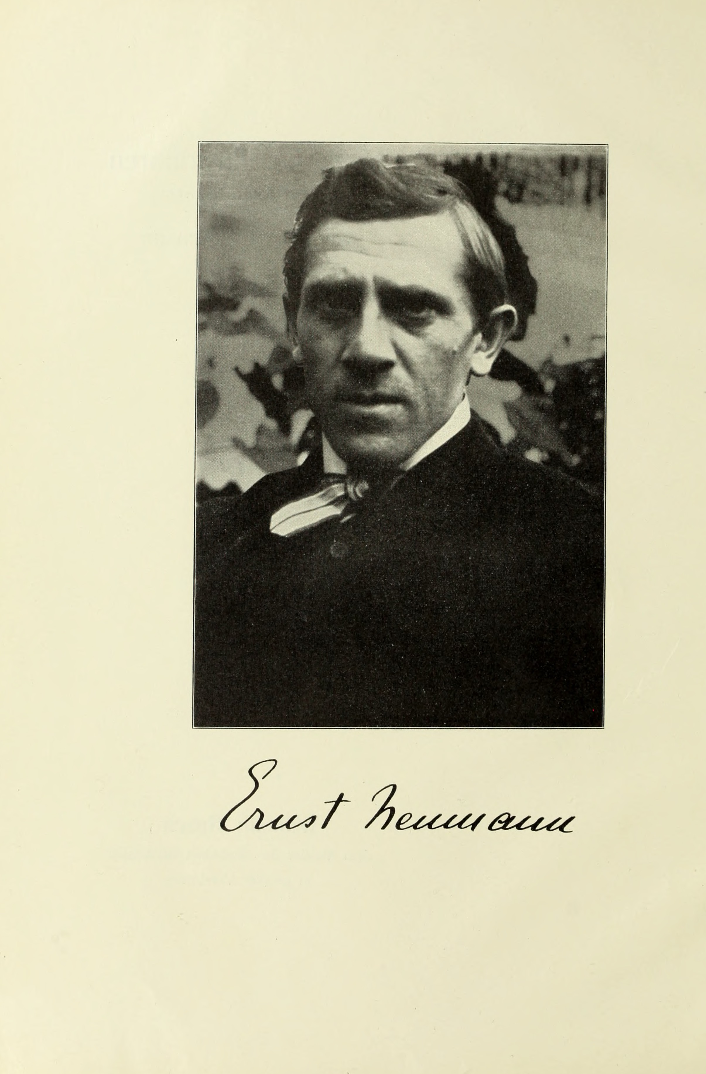 Title: Ernst Neumann Year: 1905 (1900s) Authors: Esswein, Hermann, 1877- Neumann, Ernst, 1871-1954 Subjects: Neumann, Ernst, 1871-1954 Publisher: München: R. Piper & Co. Text Appearing Before Image: 3 3125 00721 0889 Text Appearing After Image: Ernst Neumann von Hermann Essweinernstneumann00essw